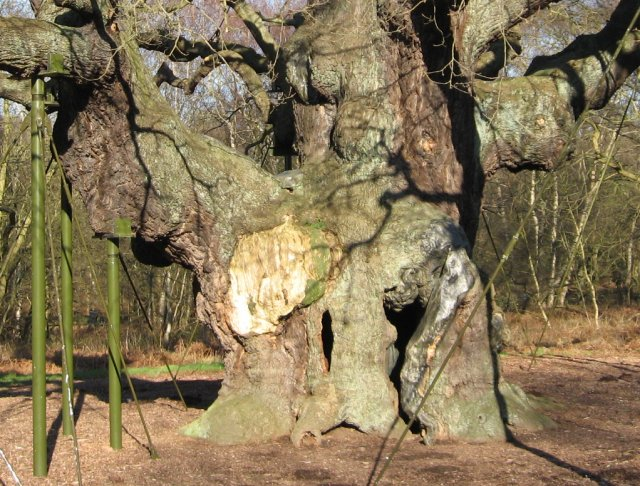 The hollow Major Oak, Sherwood Forest The best known view of the Major Oak shows its huge hollow trunk, and how to get in. It is said that Robin Hood and his Outlaws hid in here from the Sheriff of Nottingham! The hollow interior is actually several open chambers combined together. Tree Surgeons were brought in to treat the tree by removing decaying branches, cover up gaping holes, replace some of the old chains and straps and give the exposed wood, both inside and outside, a coat of arboricultural paint to prevent further decay. However, a complete eradication of fungi can prove almost impossible and can sometimes be seen on the tree in the Autumn. The oak's great hollow interior is not man-made, it is actually caused by fungi, the most invasive of which is called the "poor man's Beefsteak" (Fistulina hepatica) whose fruiting bodies are sometimes seen growing on the bark of the tree during the Autumn. The Major Oak's enormous interior is also useful for hibernating insects and mammals such as bats, queen wasps, butterflies and a variety of spiders. All make use of the valuable protection and shelter the tree has to offer during the harsh winter weather.